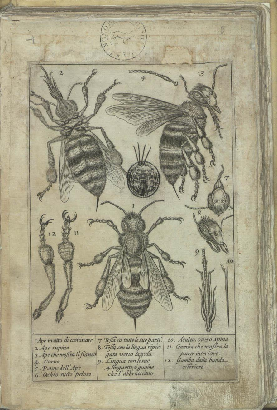 Apiarium: Bees seen through microscope